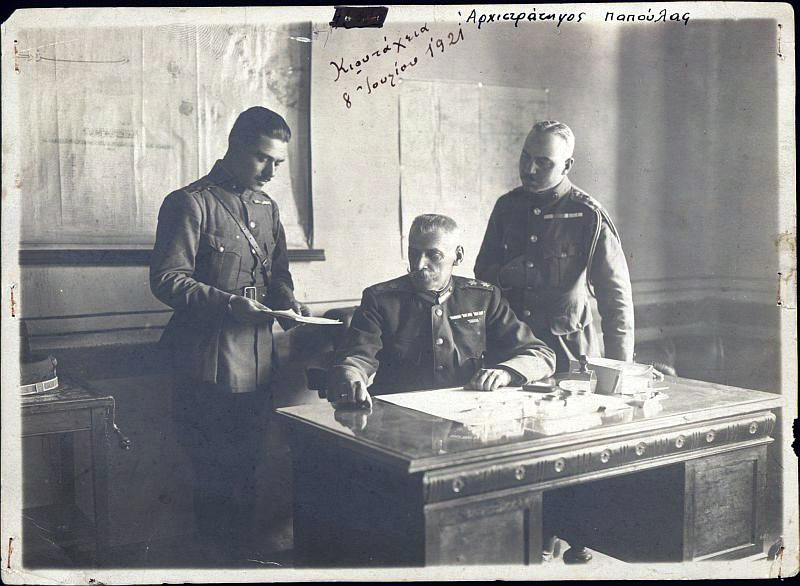 The Greek C-in-C Lt. General Anastasios Papoulas at Kütahya in July 1921